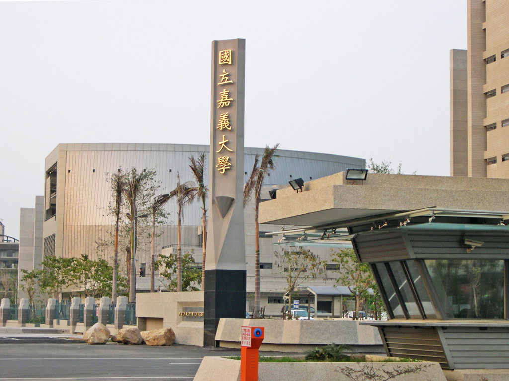 National Chiayi University, a public university located in Chiayi, Taiwan.